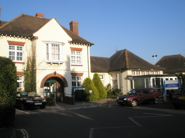 Havant War Memorial Hospital A friendly local community hospital that has served my family and friends well.